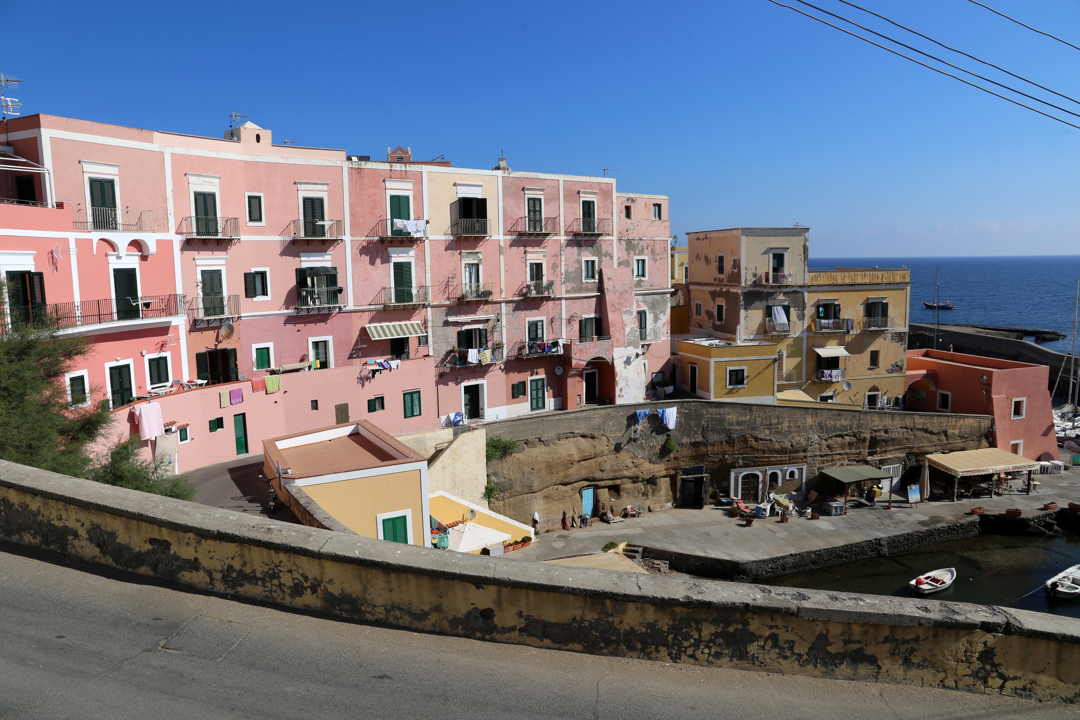 Ventotene